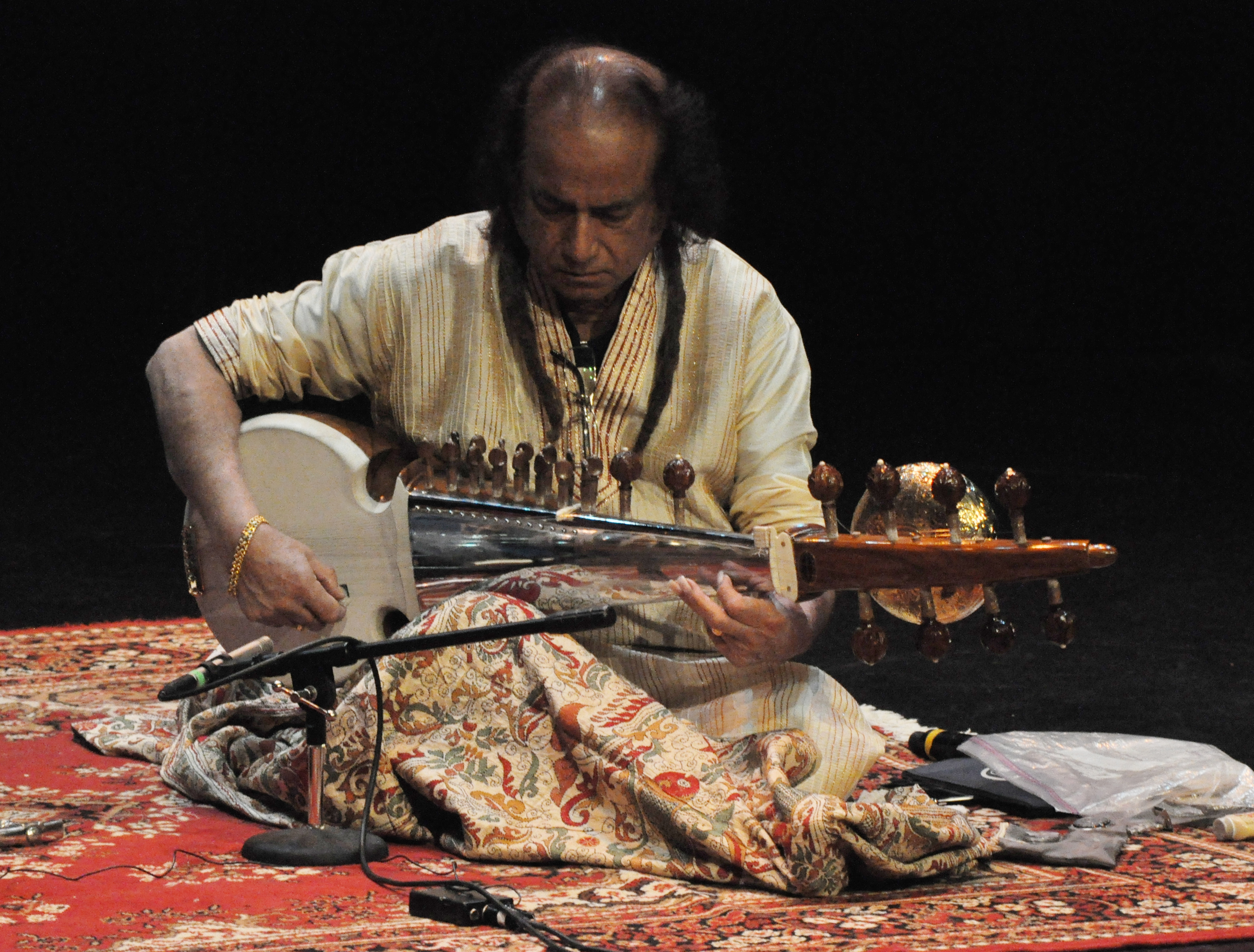 Ustad Aashish Khan, performing at a concert jointly sponsored by Seattle Indian Music Academy, Ragamala, and Pratidhwani at the Ethnic Cultural Theatre, University of Washington, Seattle, Washington, USA.